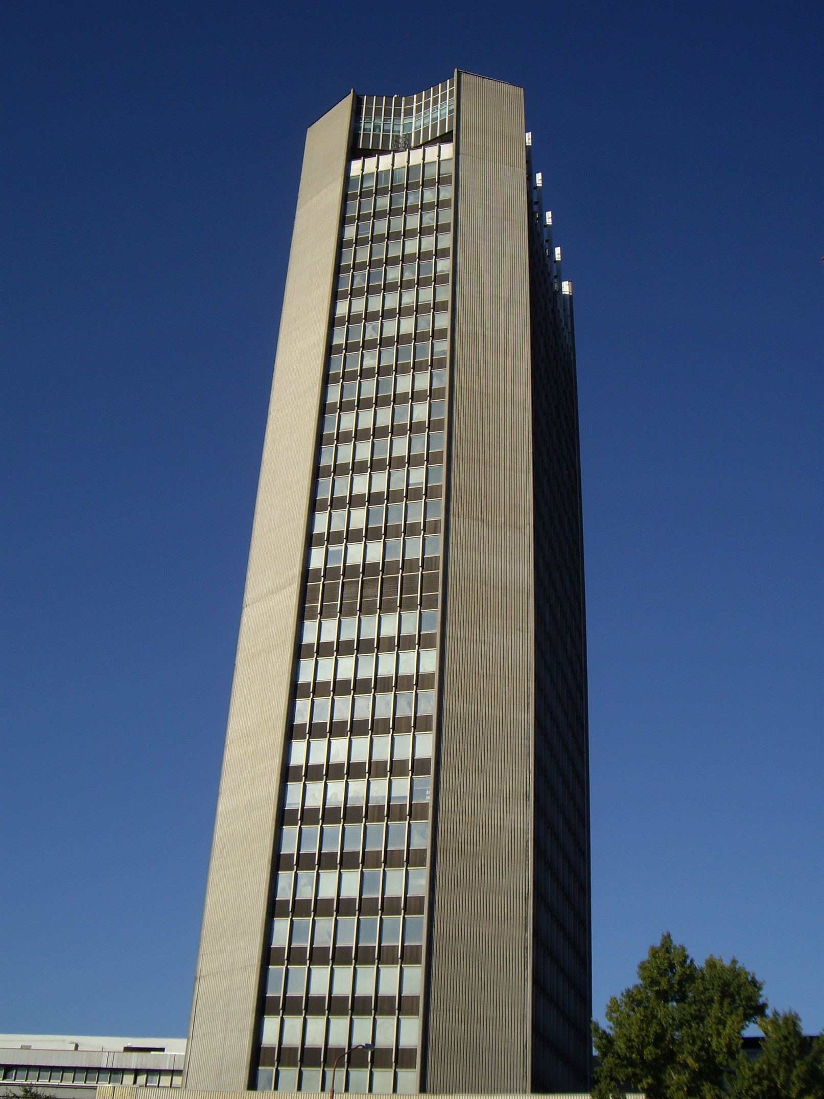 The Building of Slovak Television (STV Tower) in Bratislava.